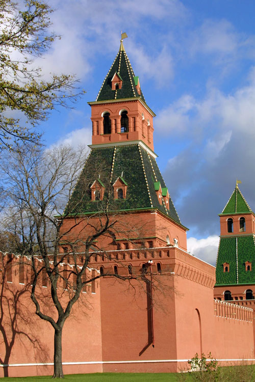 Moscow, the Kremlin. Tainitskaya Tower.